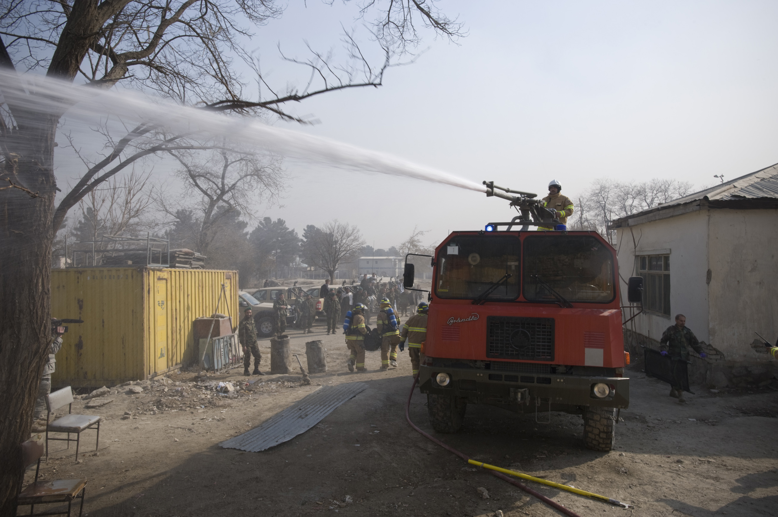 Members of the Afghan Air Force (AAF) fire protection unit in Kabul respond a fire intentionally set in a dilapidated building to test the response of the fire department. Saurer 6DM [1] ex Swiss Air Force (vhc extc ld tt 4x4 Saurer 6 DM/Brändle)